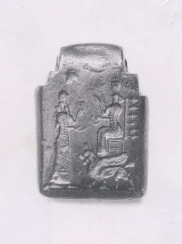 Assyrian; Amulet; Metalwork-Ornaments